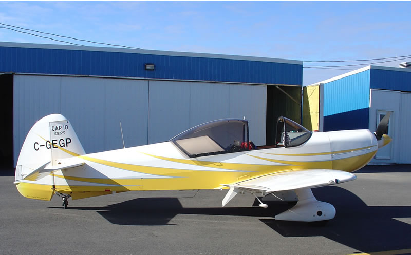 Picture of a french aerobatic plane CAP10 taken by Pierre Vanacker in October 2004.